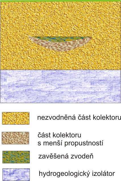 Perched groundwater body